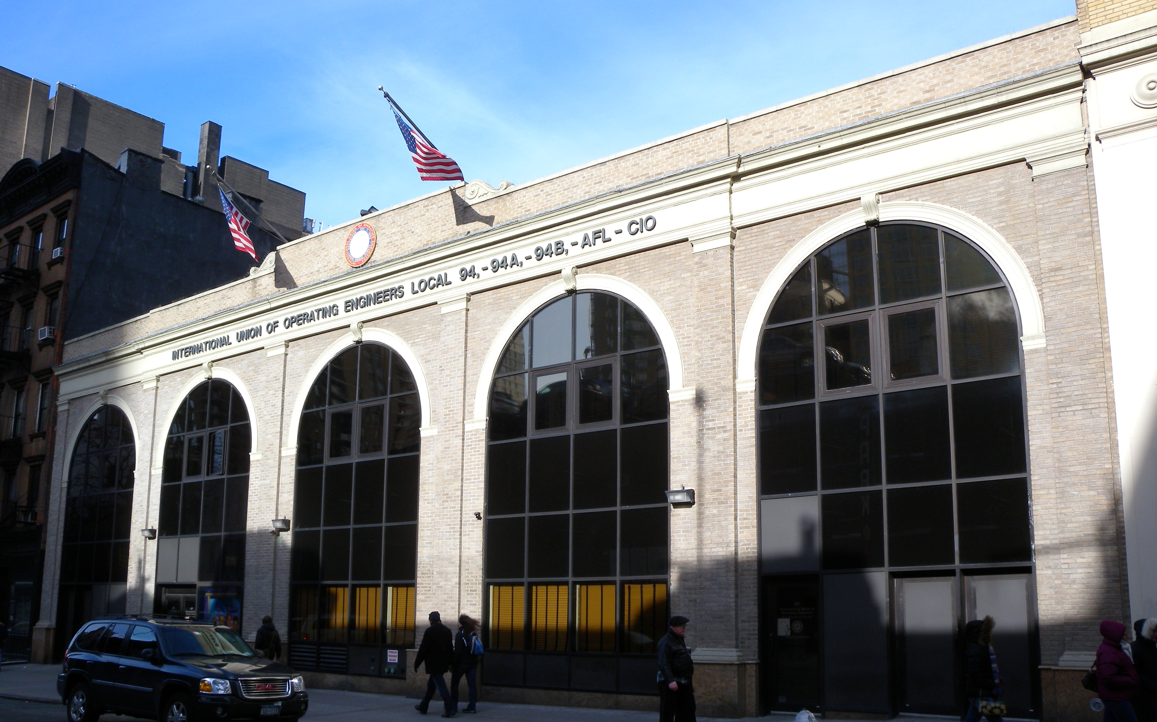 Looking north across 44th Street at Internationa Union of Operating Engineers Local 94 HQ.